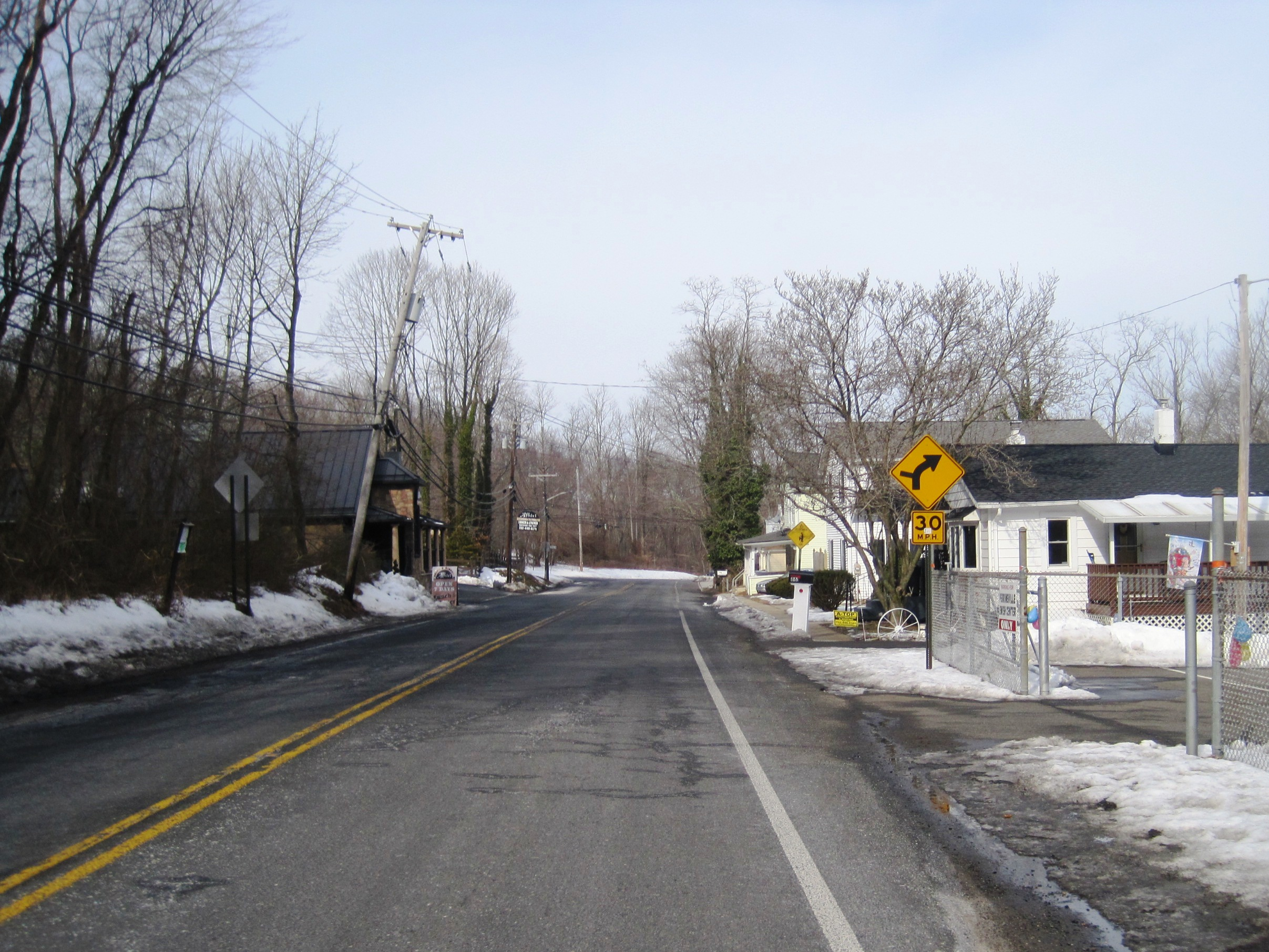 Photo of an unincorporated section of Millstone Township, New Jersey known as Perrineville. The photo was taken on westbound Perrineville Road (County Route 1) approaching Agress Road.